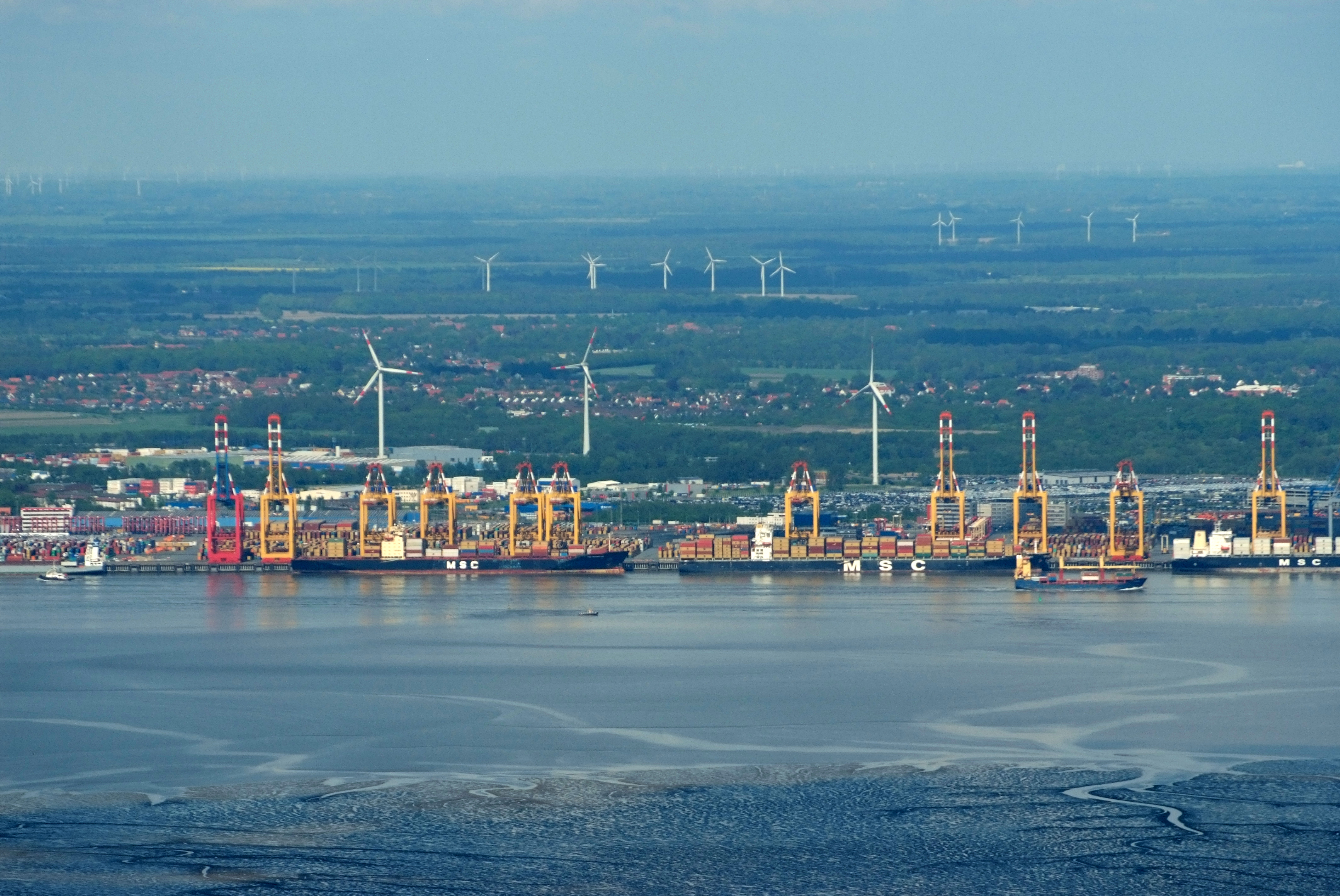 Three MSC container ships at Bremerhaven; from left to right the MSC Washington, MSC Emma, and (on the right edge) MSC Joy.